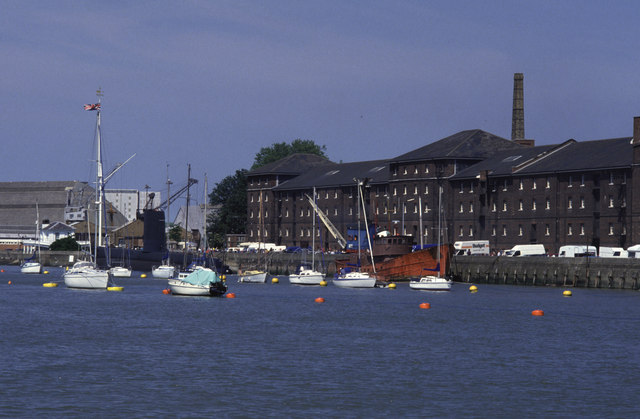 Chatham Historic Dockyard Photographed from the paddle steamer Kingswear Castle